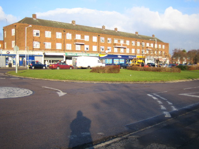 Luton: The Green, Hockwell Ring, Leagrave The community shops viewed looking north from the south side of The Green.